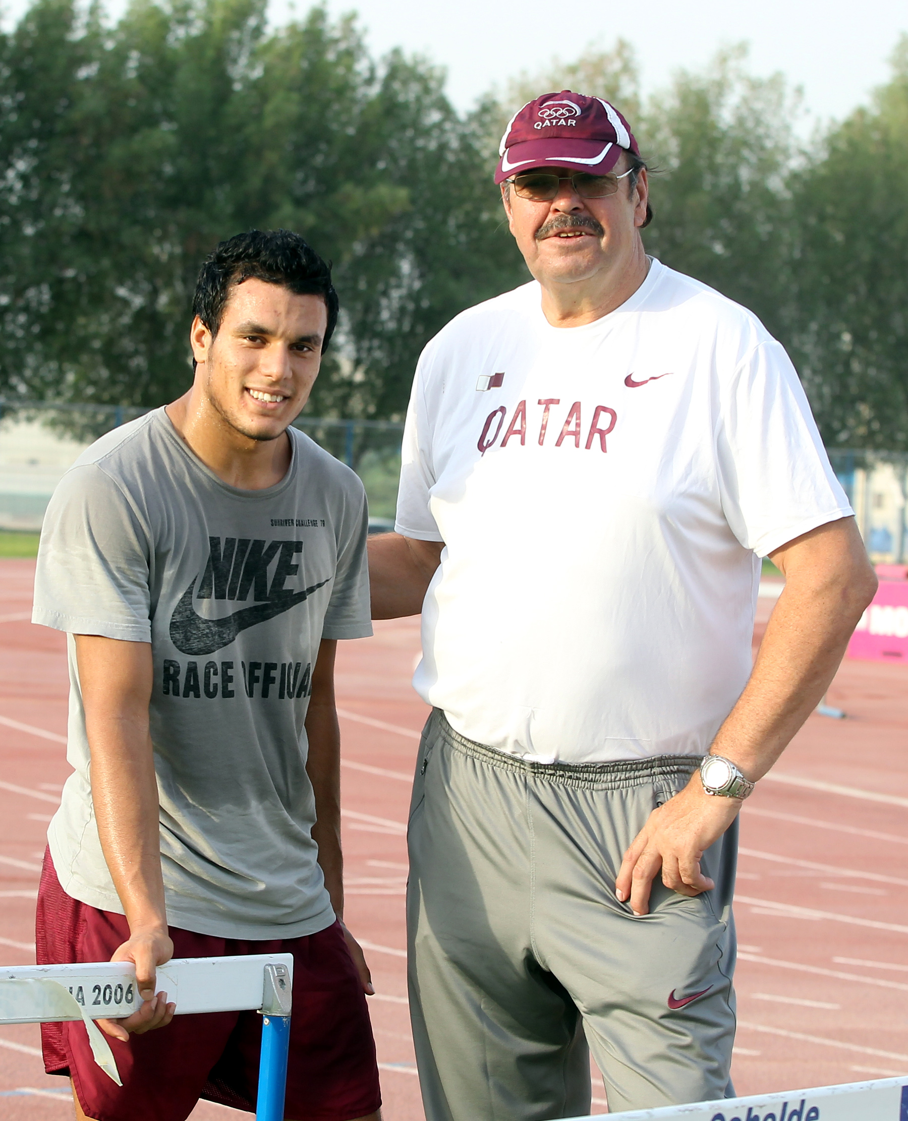 Qatari junior hammer thrower Ashraf Amjad Mohammed with his Russian coach Aleksey Malyukov at the Khalifa International Stadium. Picture by Mohan